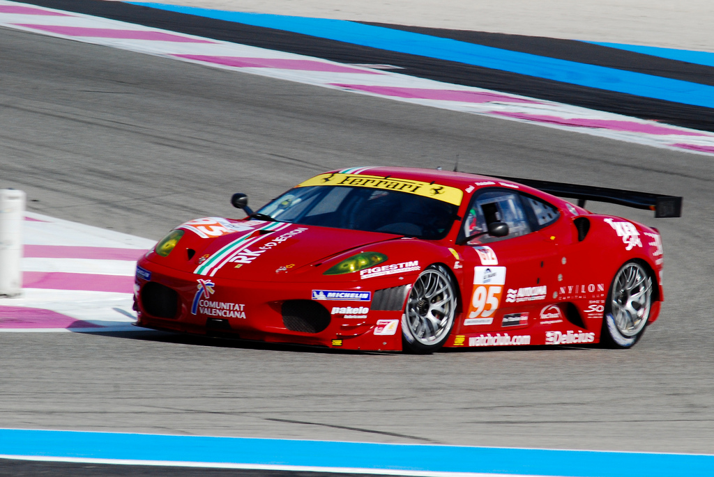 Ferrari F430 GT #95 of AF Corse driven by Giancarlo Fisichella ,Toni Vilander and Jean Alesi.